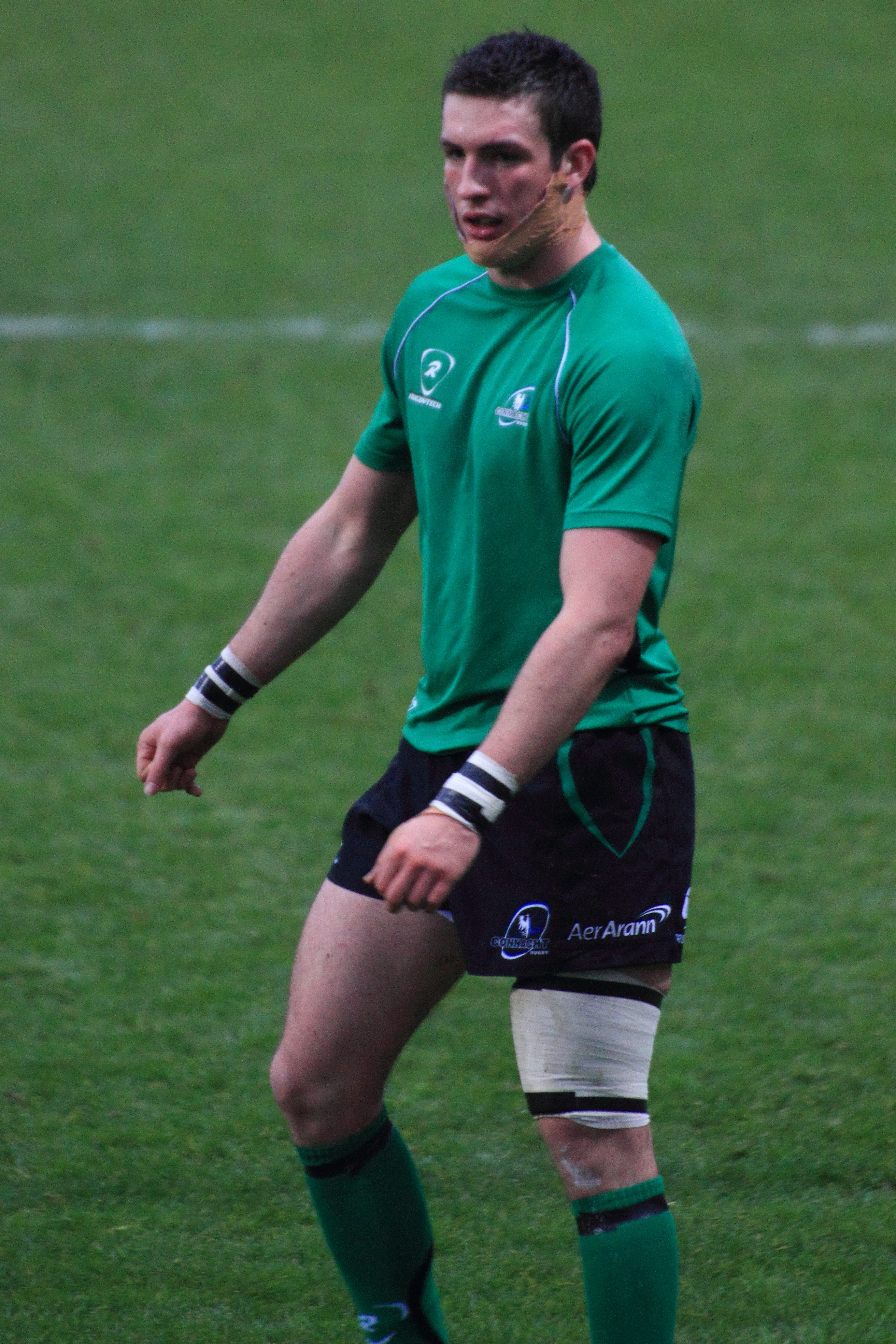 Heineken Cup 2011-2012 — 14 January 2012, Stade Ernest-Wallon. Match between: Stade toulousain — Connacht Rugby